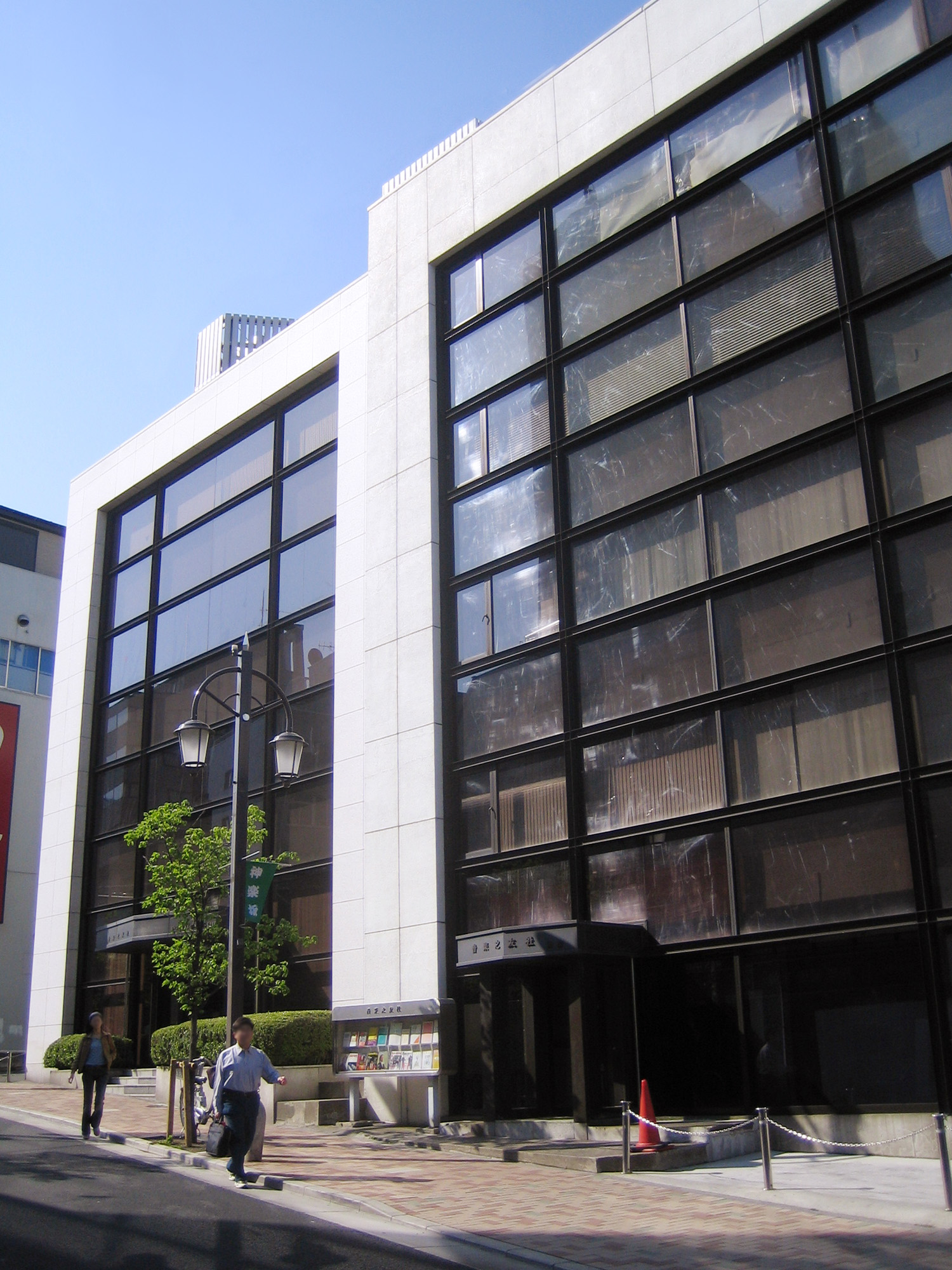 Ongaku no tomo sha Co. (音楽之友社), in Shinjuku, Tokyo, Japan